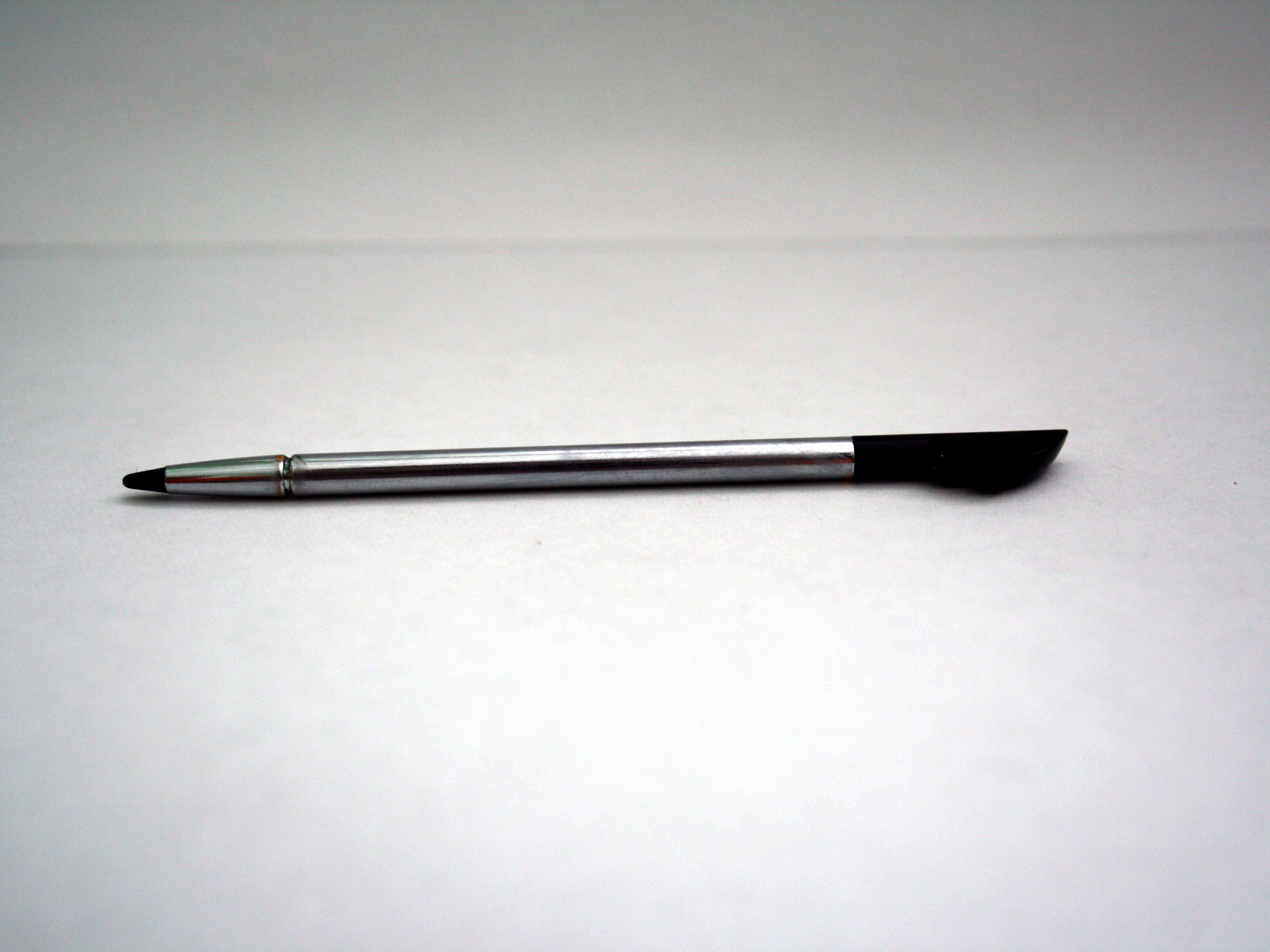 Stylus of HTC Touch.